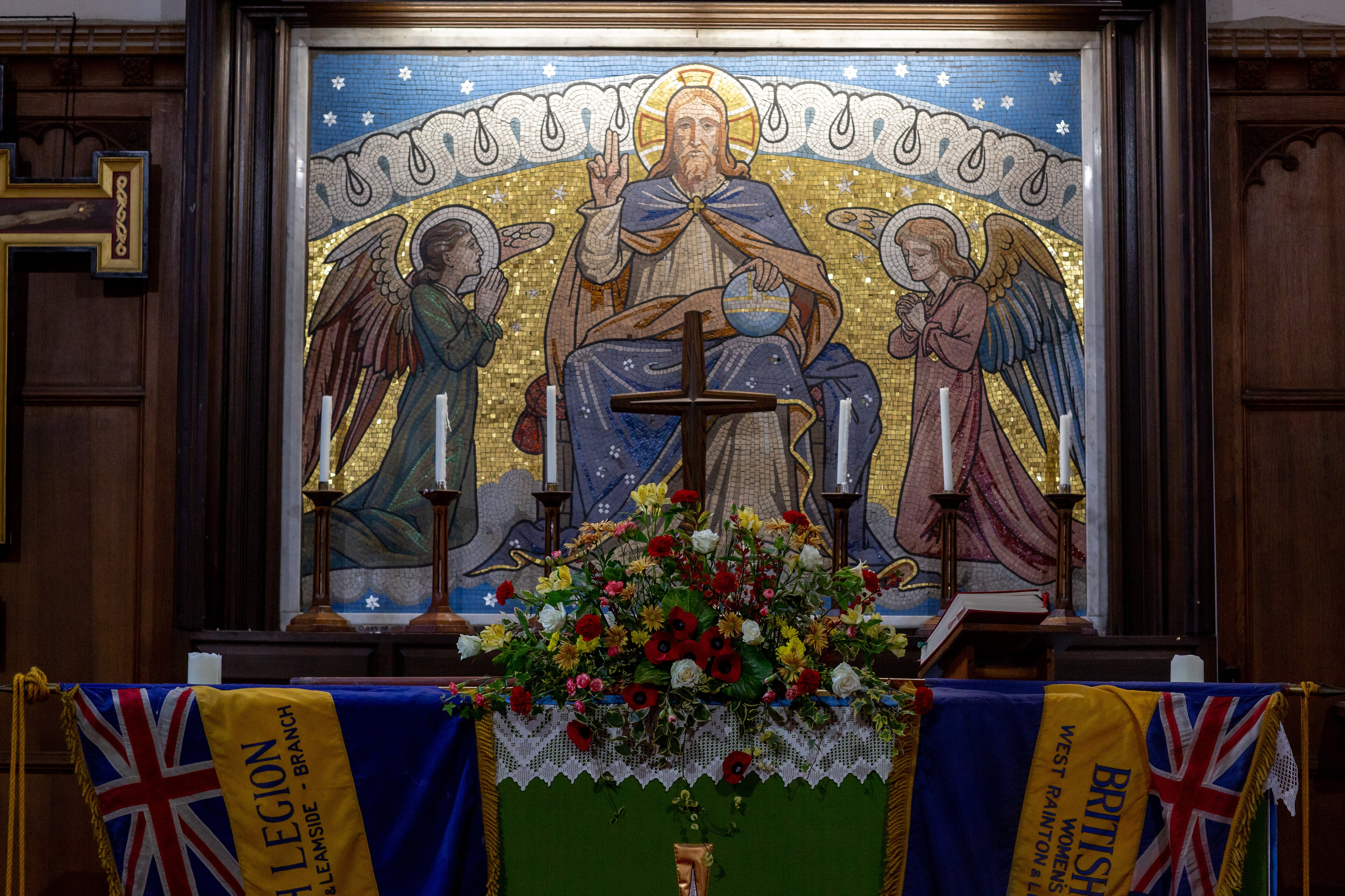 Reredos in St Mary's Church, West Rainton, HOughton-le-Spring